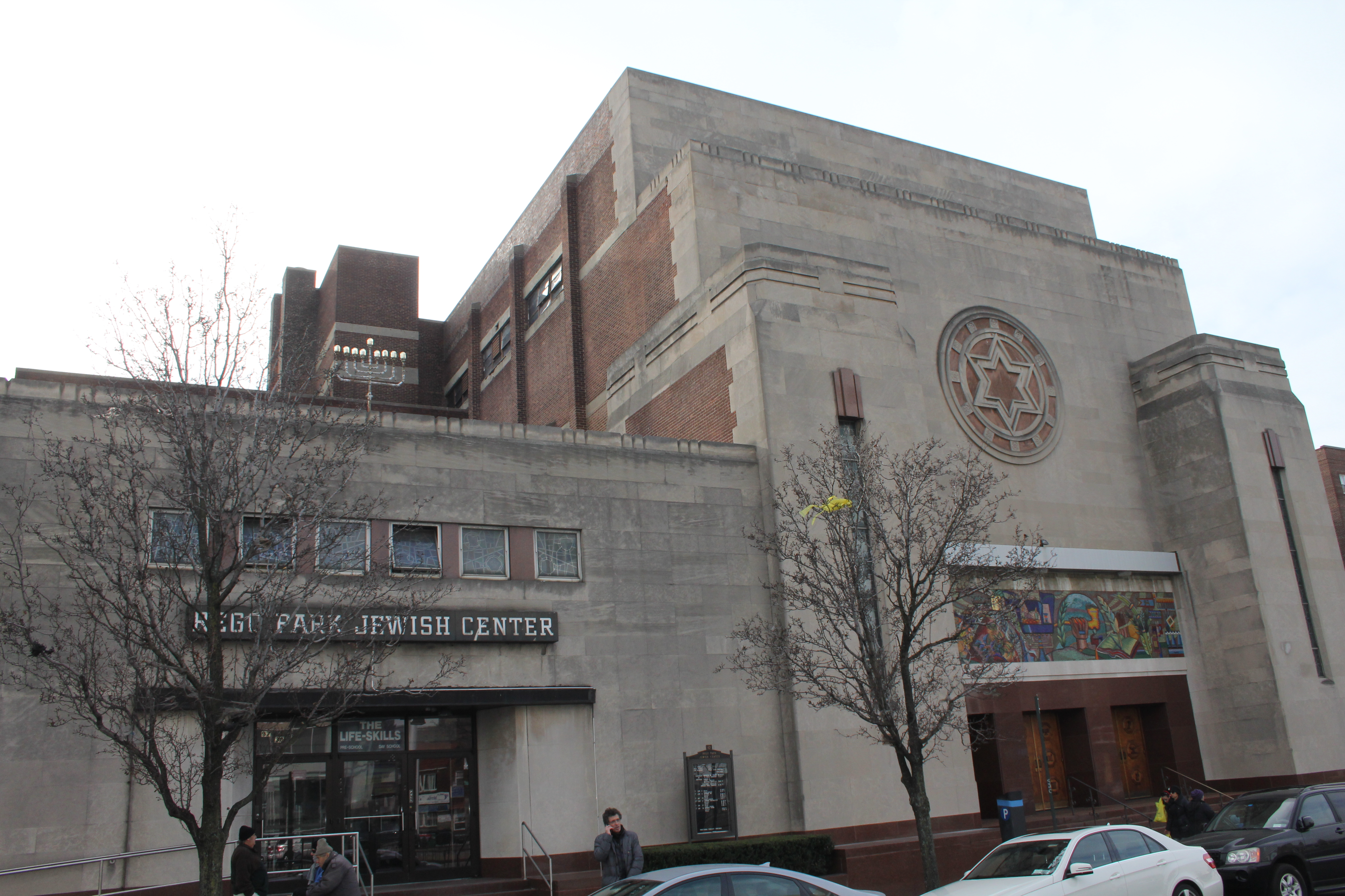 Rego Park Jewish Center, 97-30 Queens Blvd., Rego Park, Queens, New York City. Built 1948. Entire complex as seen from Queens Blvd.